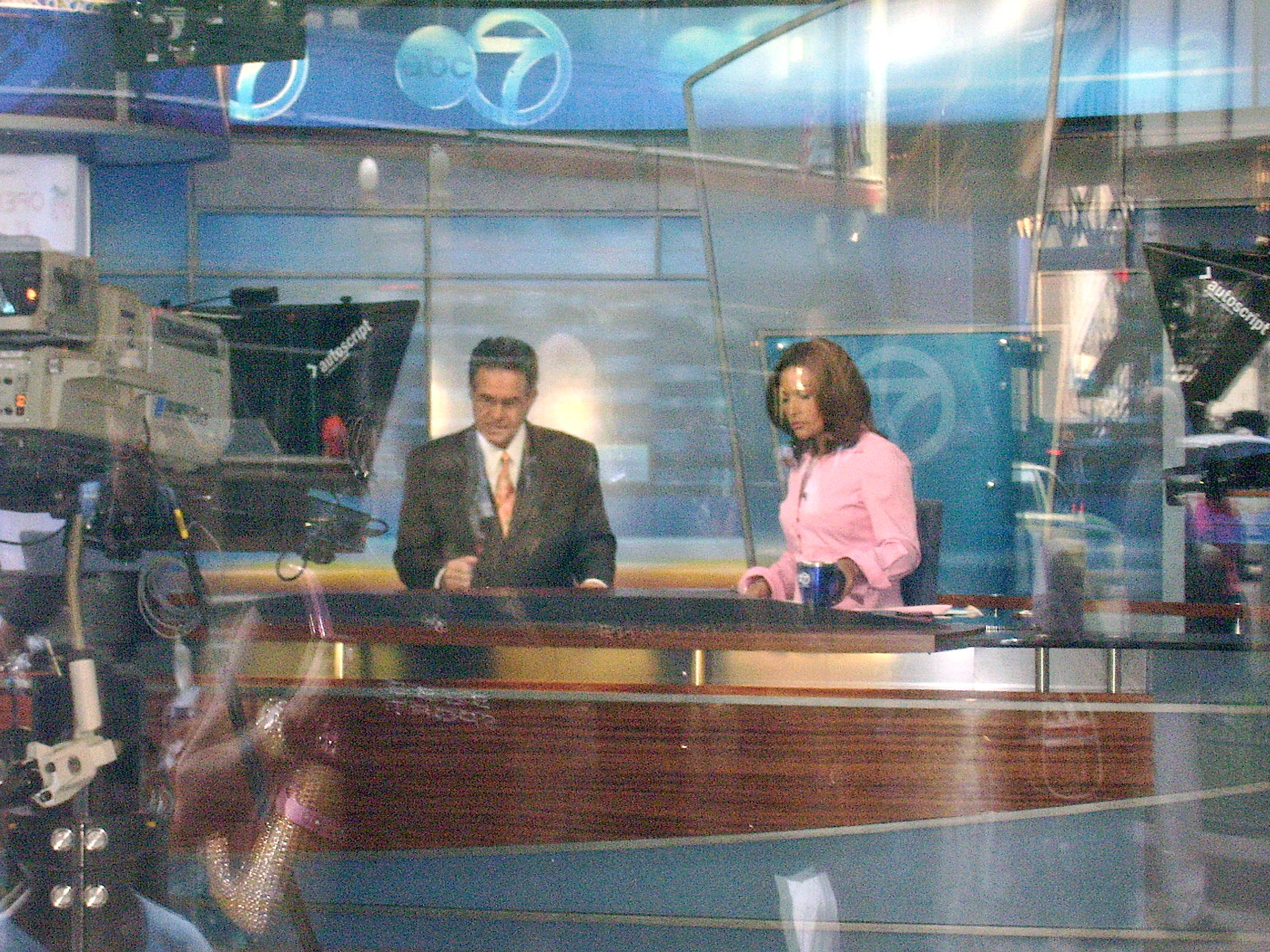 Ron Magers and Cheryl Burton anchor the 5:00pm newscast on WLS-TV Chicago, June 16, 2006. Photo taken through the window of the State Street Studio of ABC7.